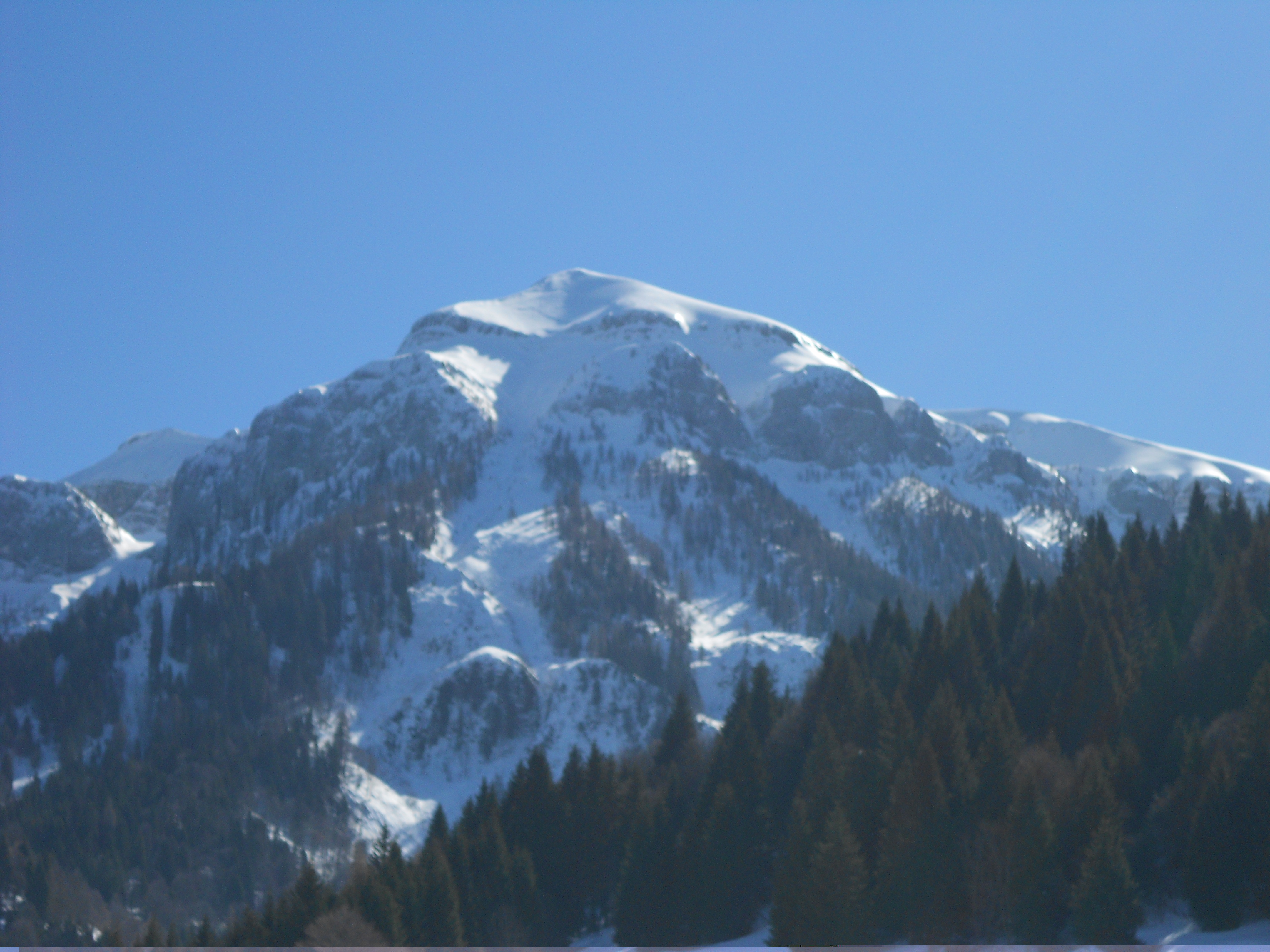 Monte Pavione view from Vederna